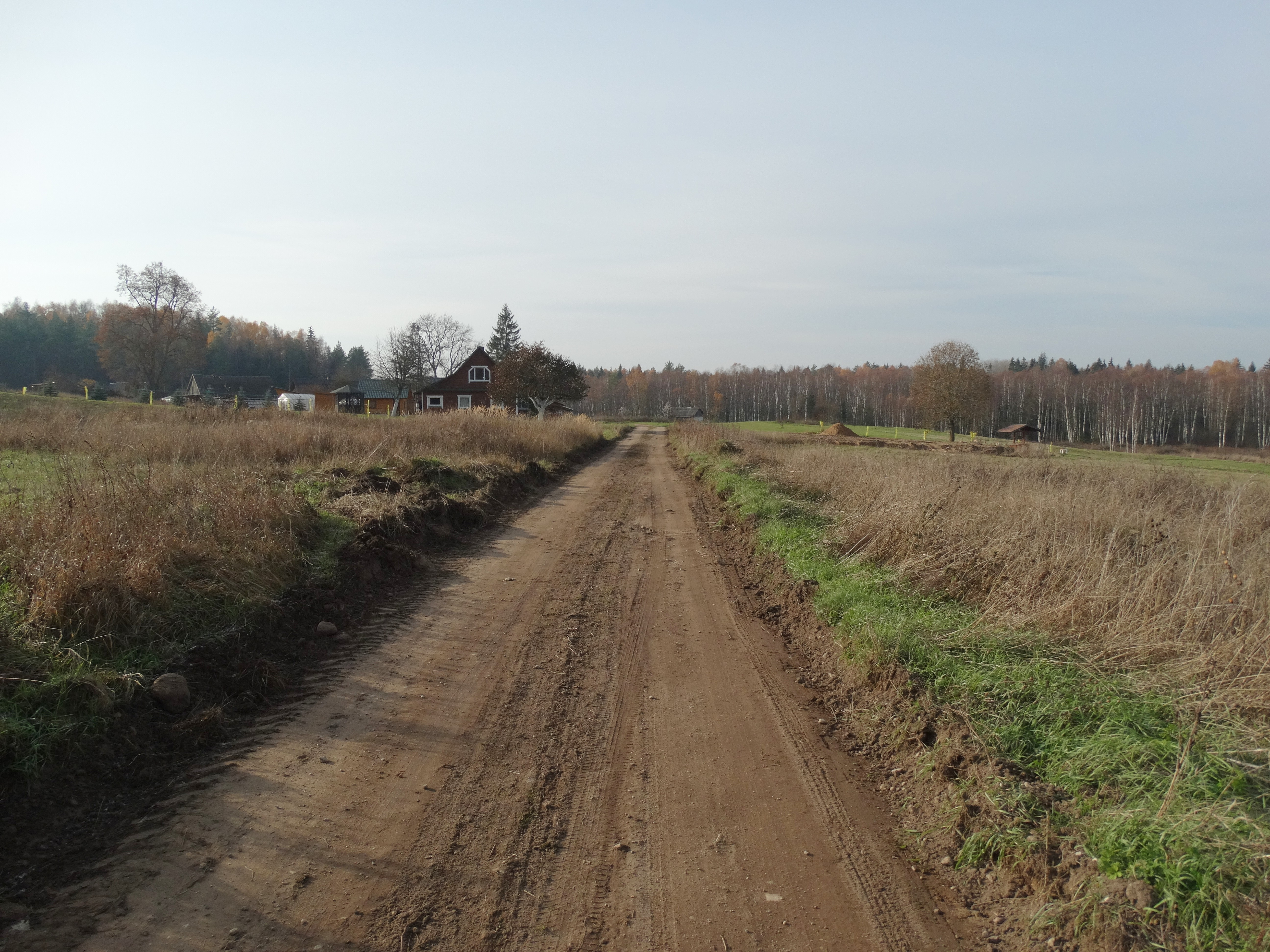 Nečėnai, Utena district, Lithuania